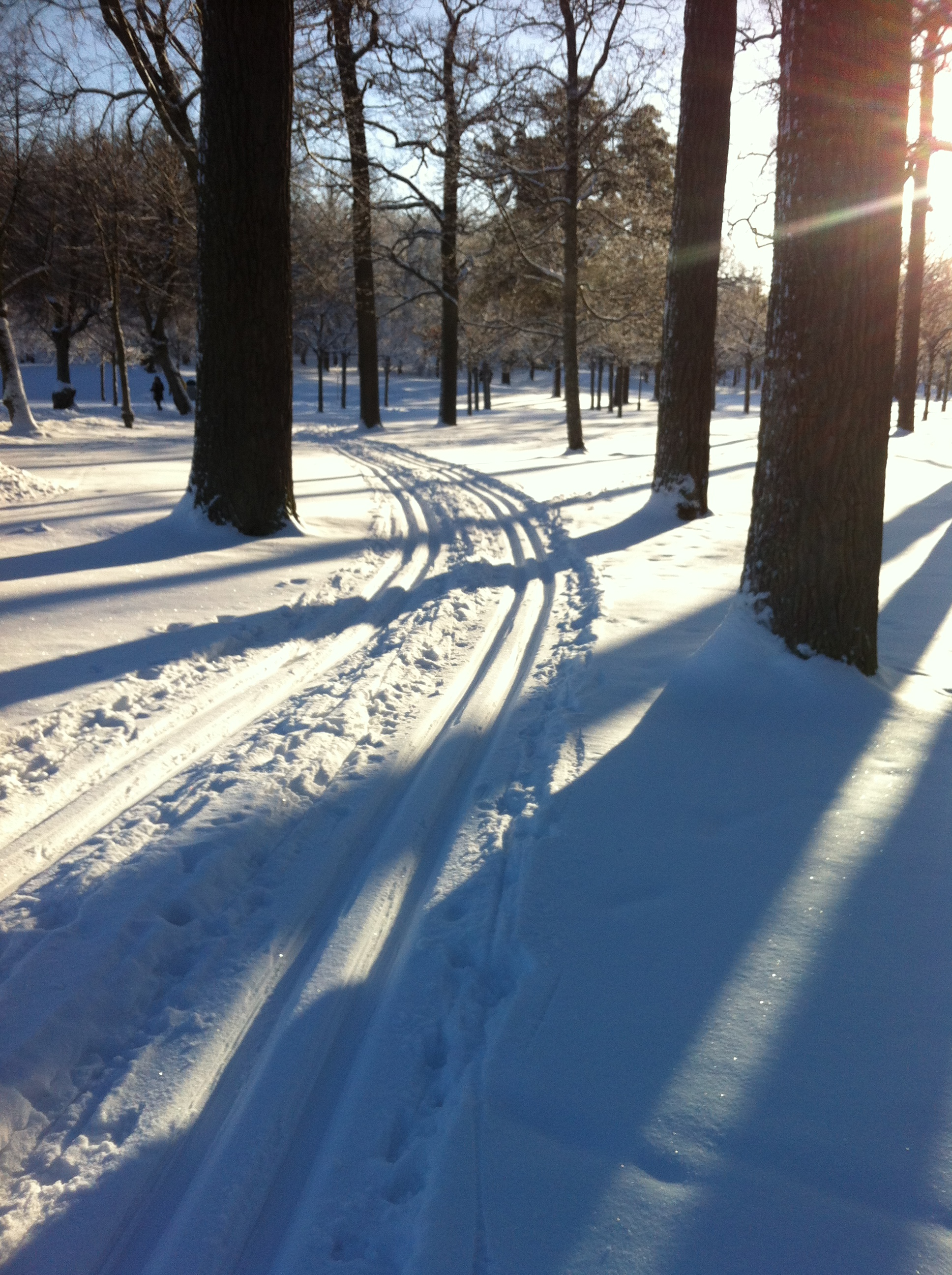 Cross-country skiing trail in The English garden at The Drottningholm Palace, 2013